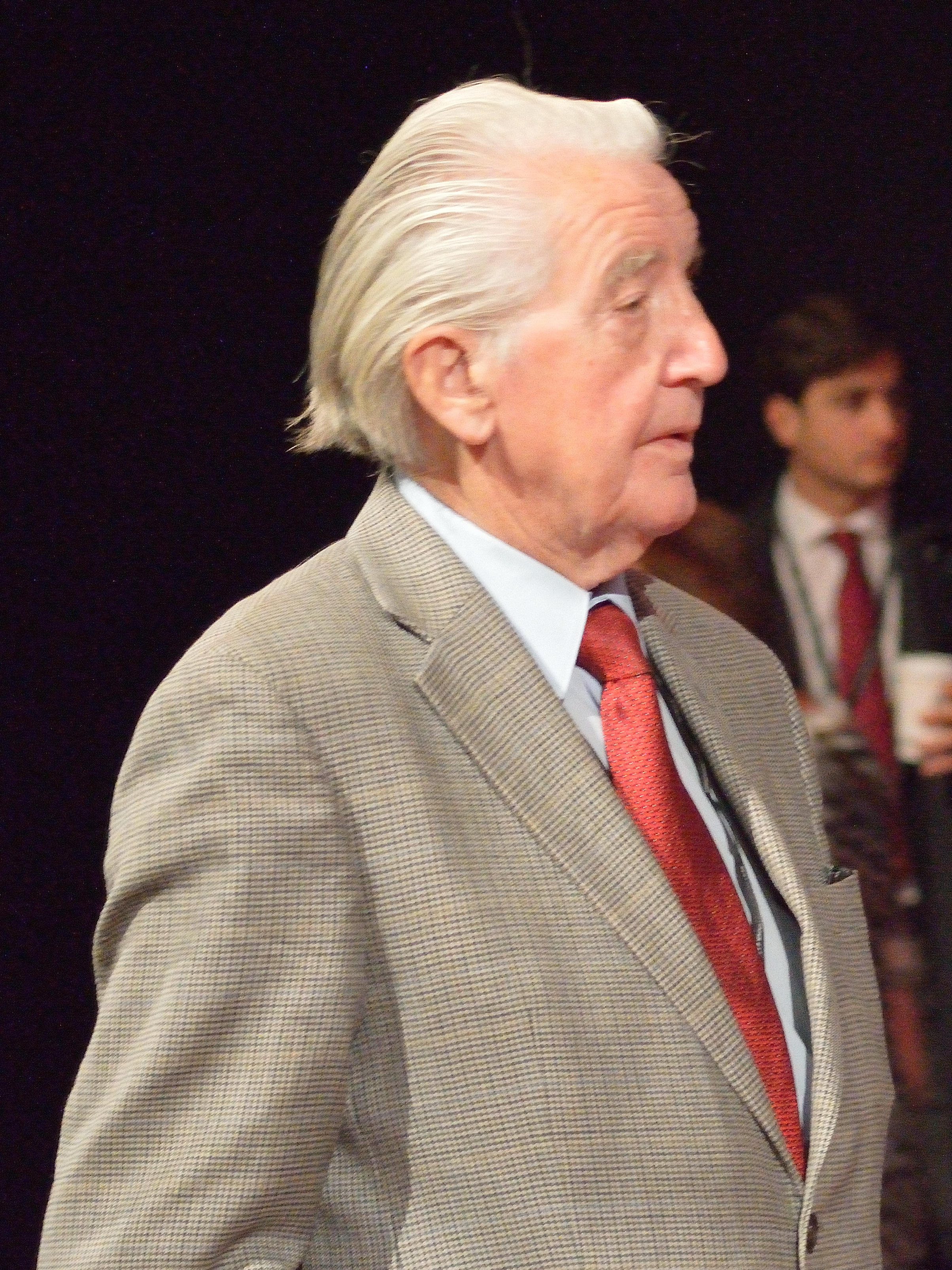 Dennis Skinner at the 2016 Labour Party Conference in Liverpool. Skinner had not been re-elected to the NEC by fellow MPs,[1] so this may be his last conference as an NEC member.